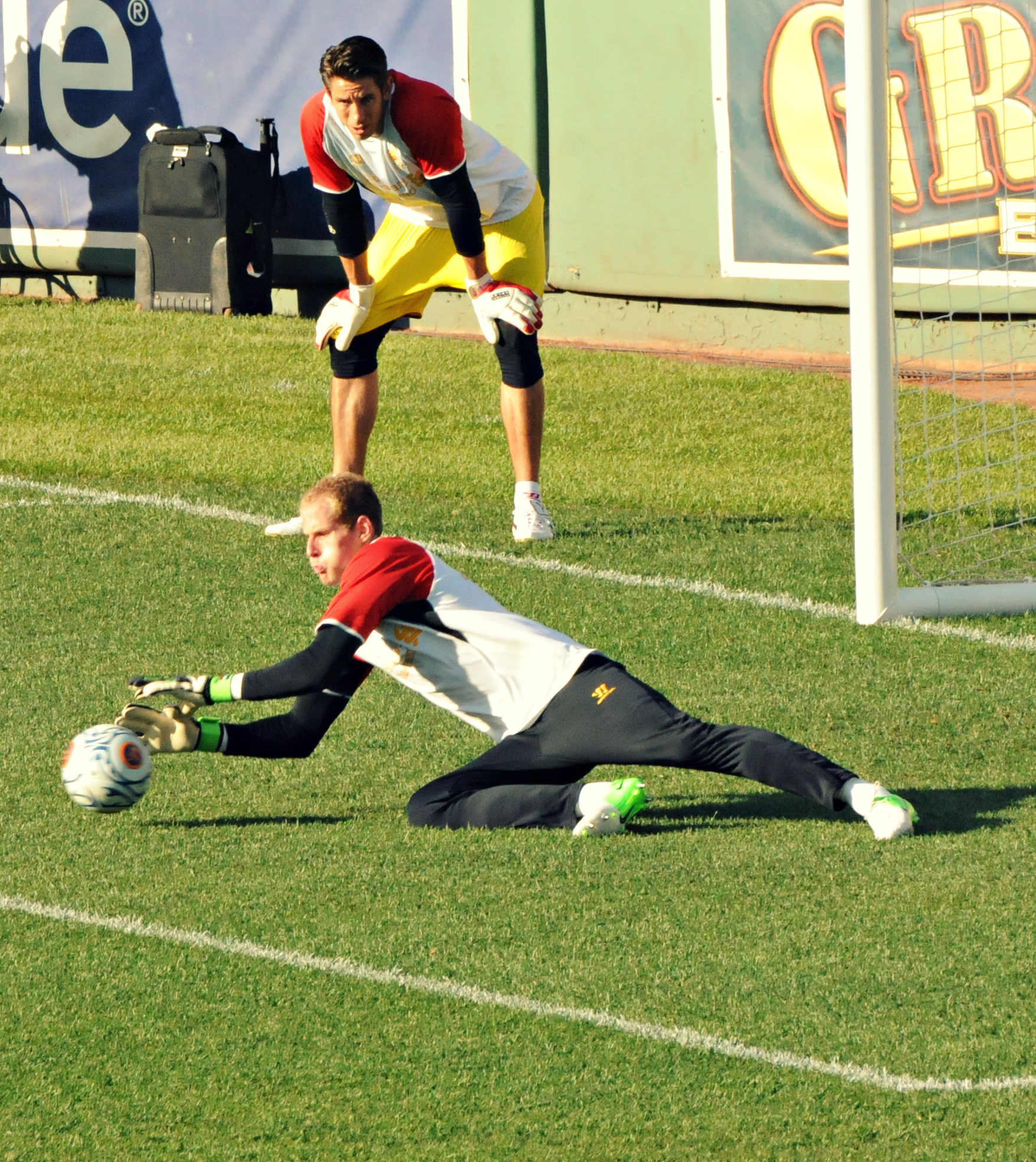 Péter Gulácsi and Brad Jones before the game between Liverpool and AS Roma at Fenway Park, 25 July 2012.